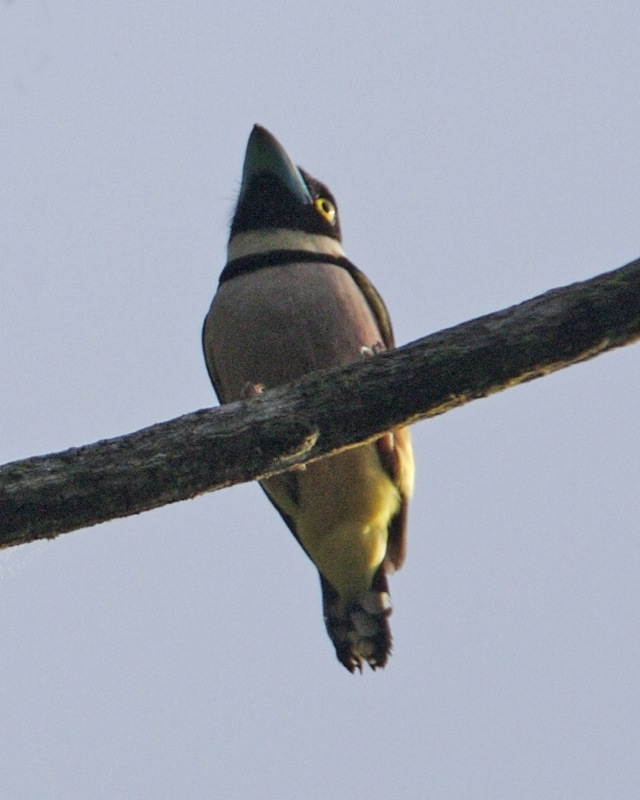 Black-and-yellow Broadbill Eurylaimus ochromalus 14th. June, 2009 Location: Panti Forest, Johor, Malysia 690V7841